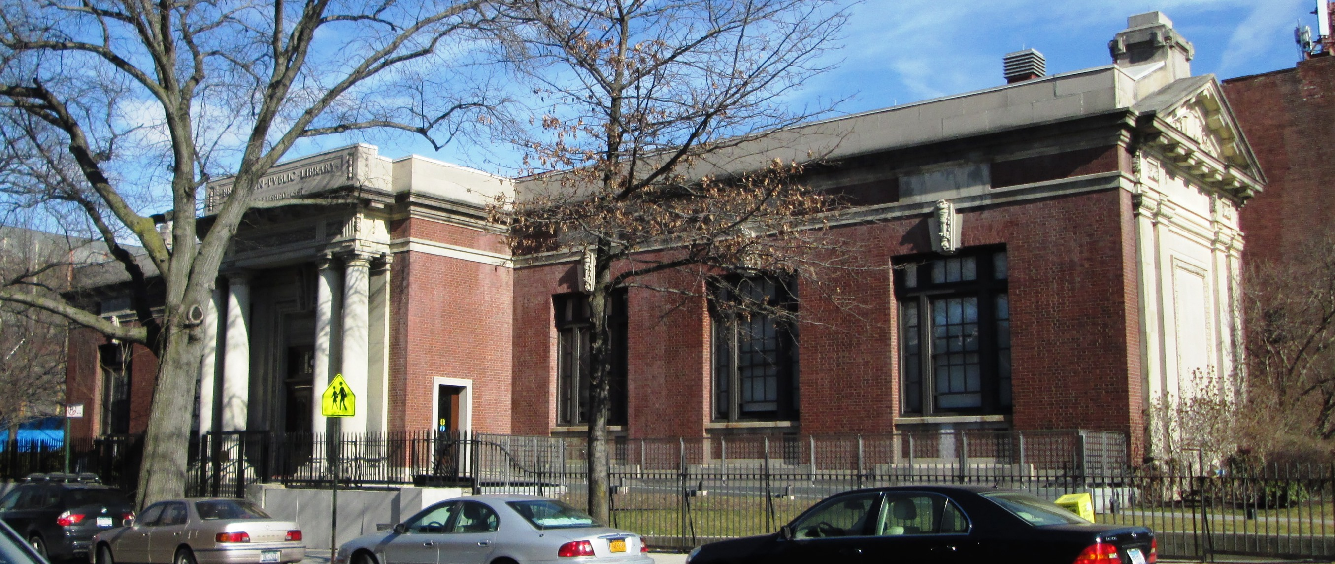 The Brooklyn Public Library Park Slope Branch at 431 Sixth Avenue at the corner of 9th Street in the South Slope neighborhood of Brooklyn, New York City was built in 1906 and was designed by Raymond F. Almirall in the Classical revival style. Until 1975, it was known as the "Prospect Branch". The building was designated a NYC landmark in 1998. (Source: Guide to NYC Landmarks (4th ed.))